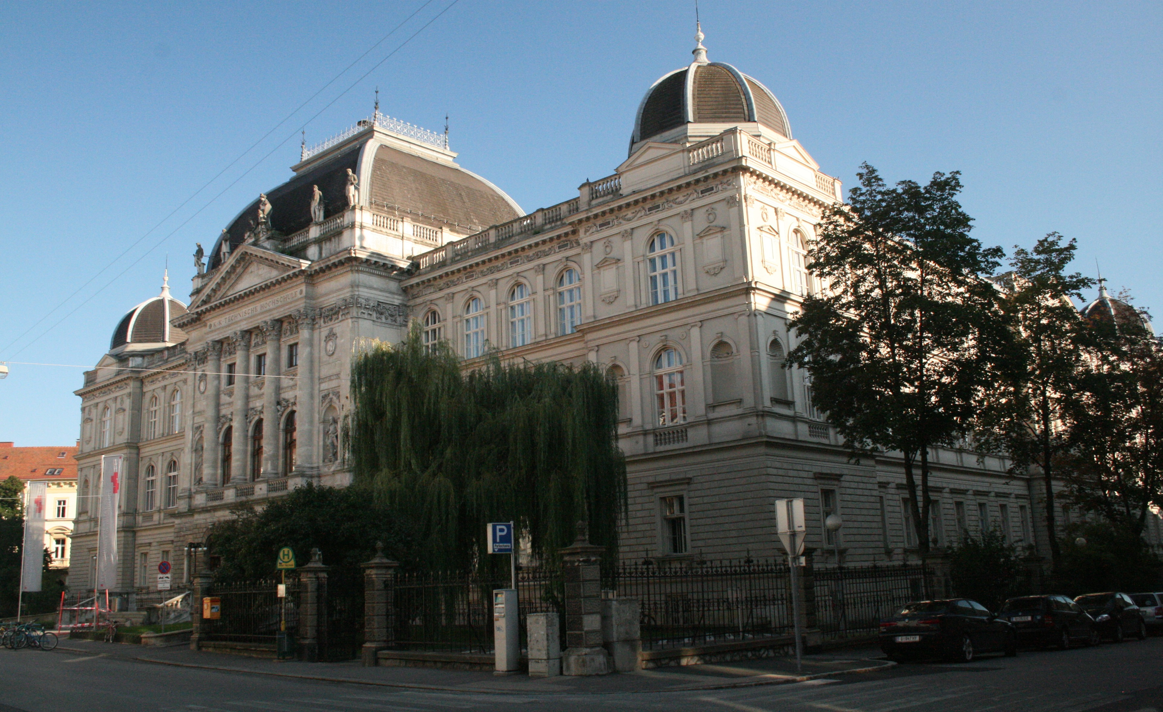 Main building of the Graz University of Technology in Graz, Austria, Europe